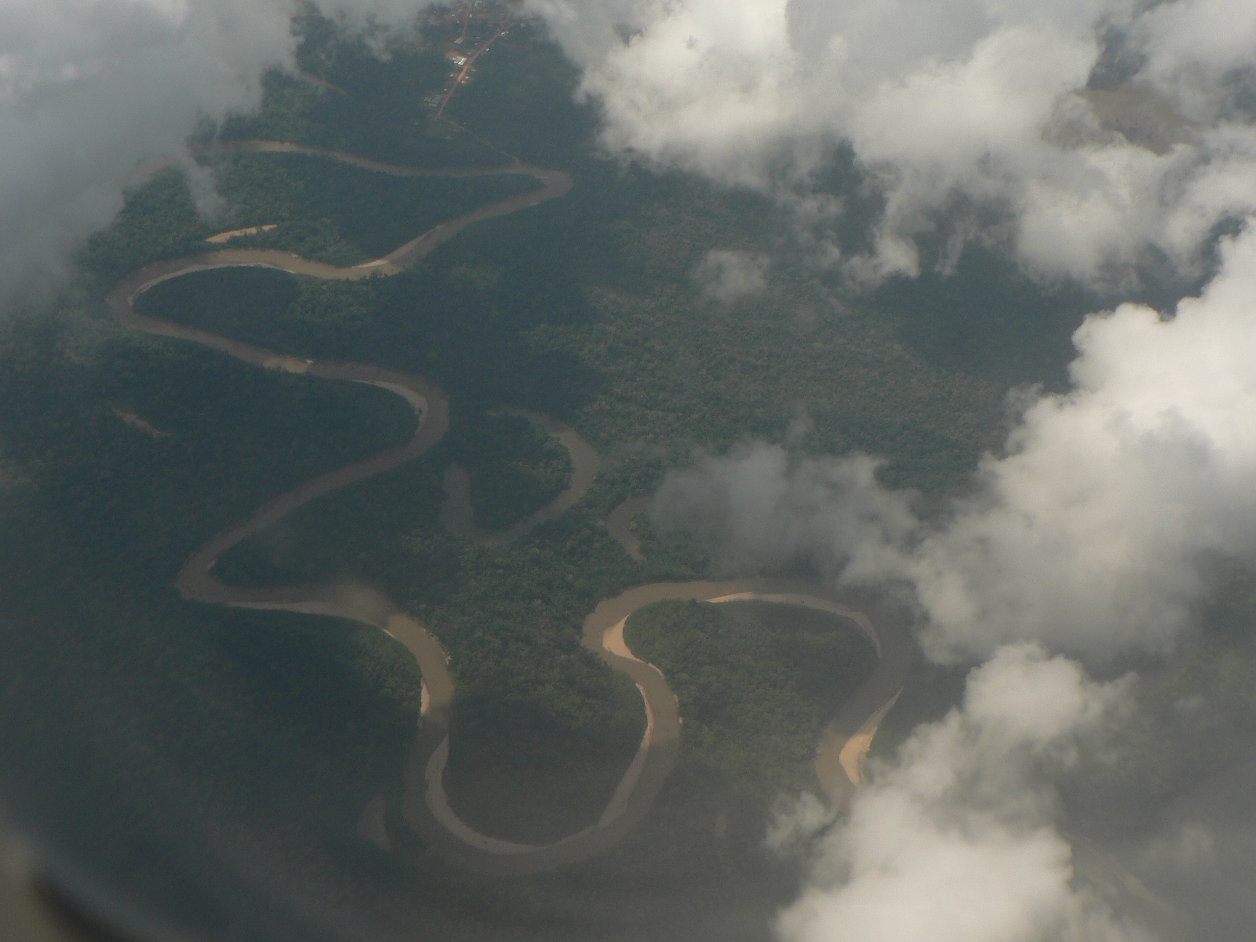 Río Tahuamanu near Filadelfia, Pando, Bolivia. In the background there is a part of Filadelfia.